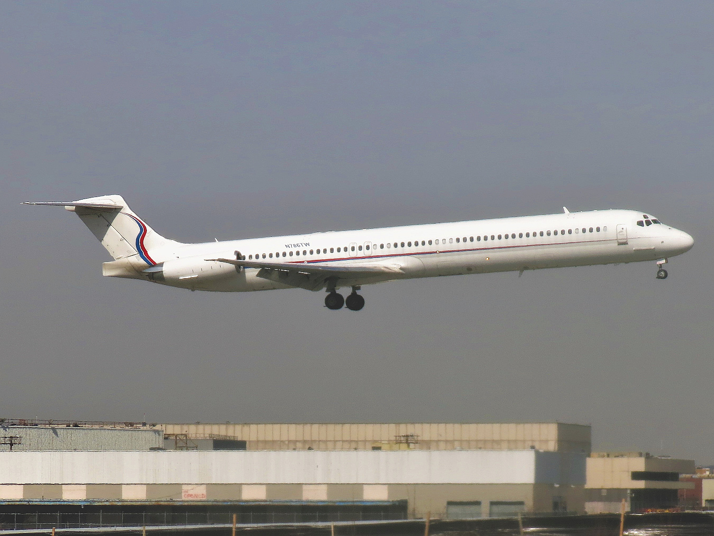 An Ameristar Jet Charter McDonnell Douglas MD-83 is on final approach to John F. Kennedy International Airport's Runway 13L. Almost a year later, this frame was severely damaged in a runway overrun at Willow Run Airport and is a potential write-off.